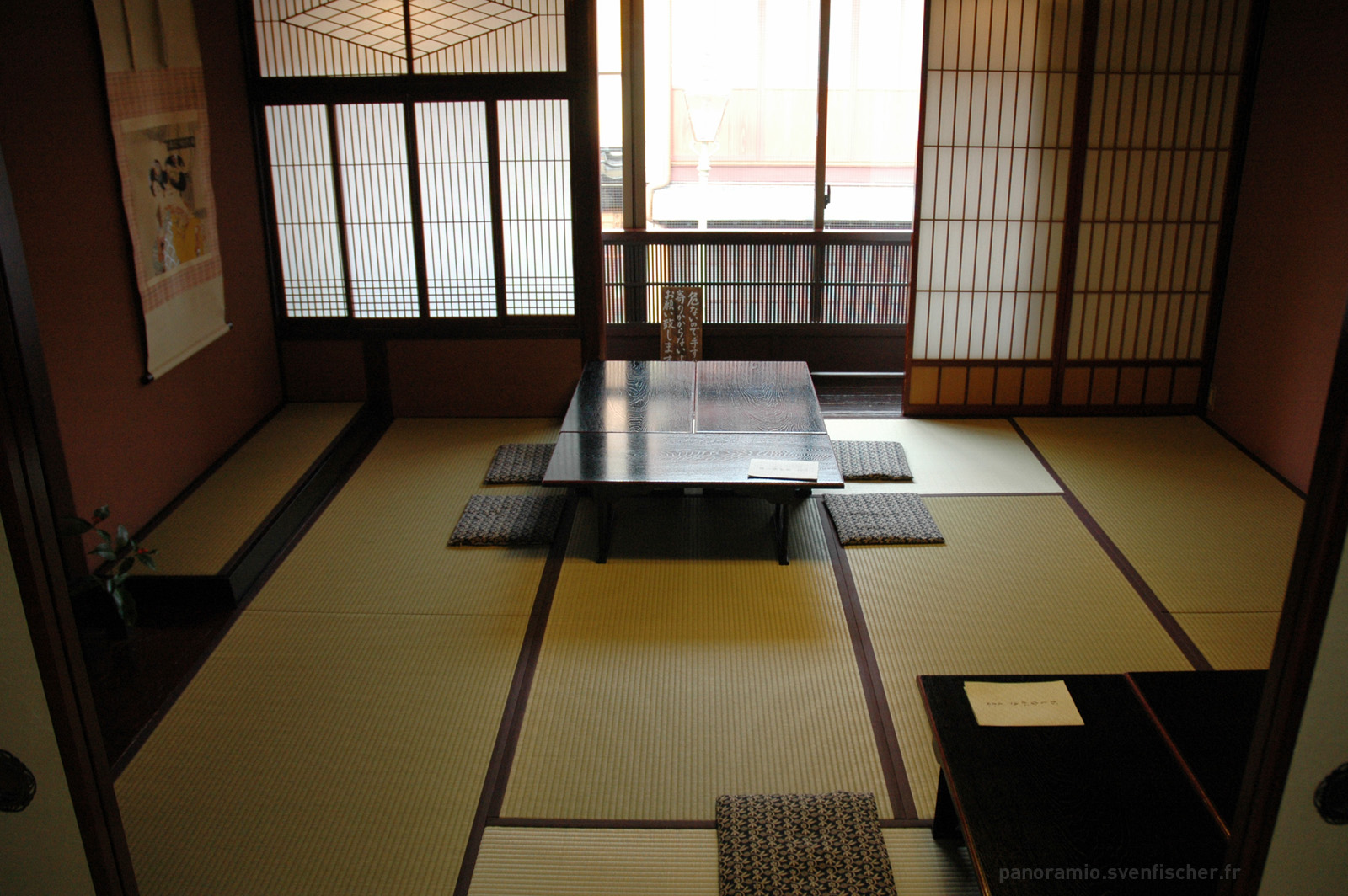 Inside of a tea house in the Higashi chaya-gai district (Kanazawa)